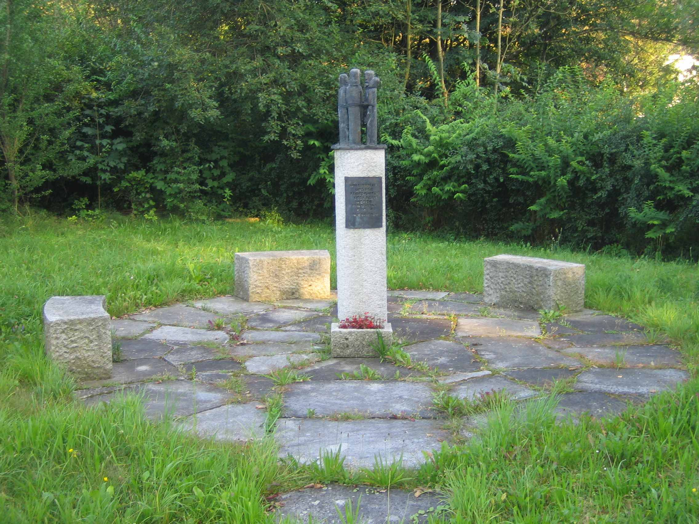 Memorial of the victims of the labor education and gypsy detention camp St. Pantaleon-Weyer